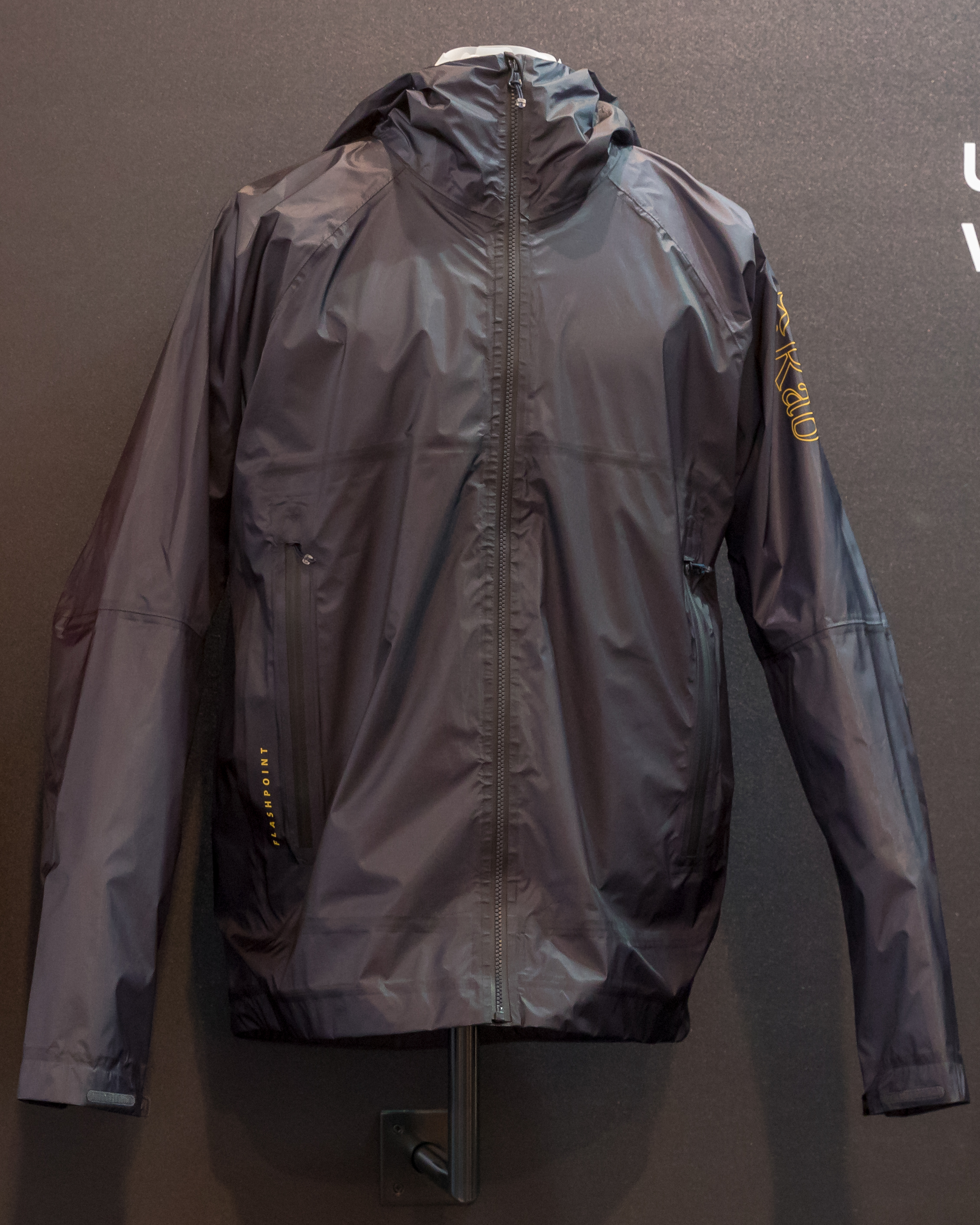 OutDoor 2018